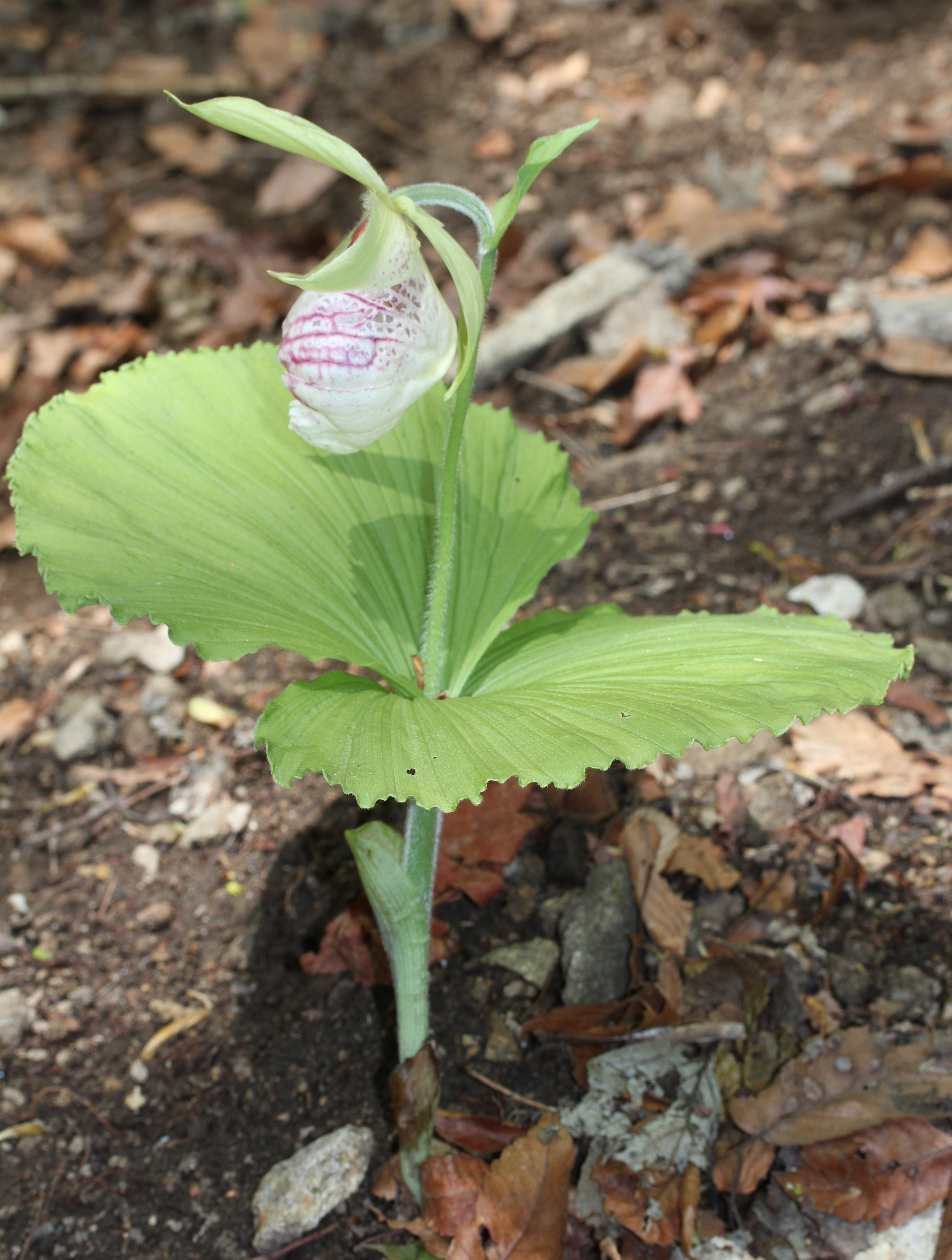 Cypripedium japonicum Thunb., in Gero, Gifu prefecture, Japan.